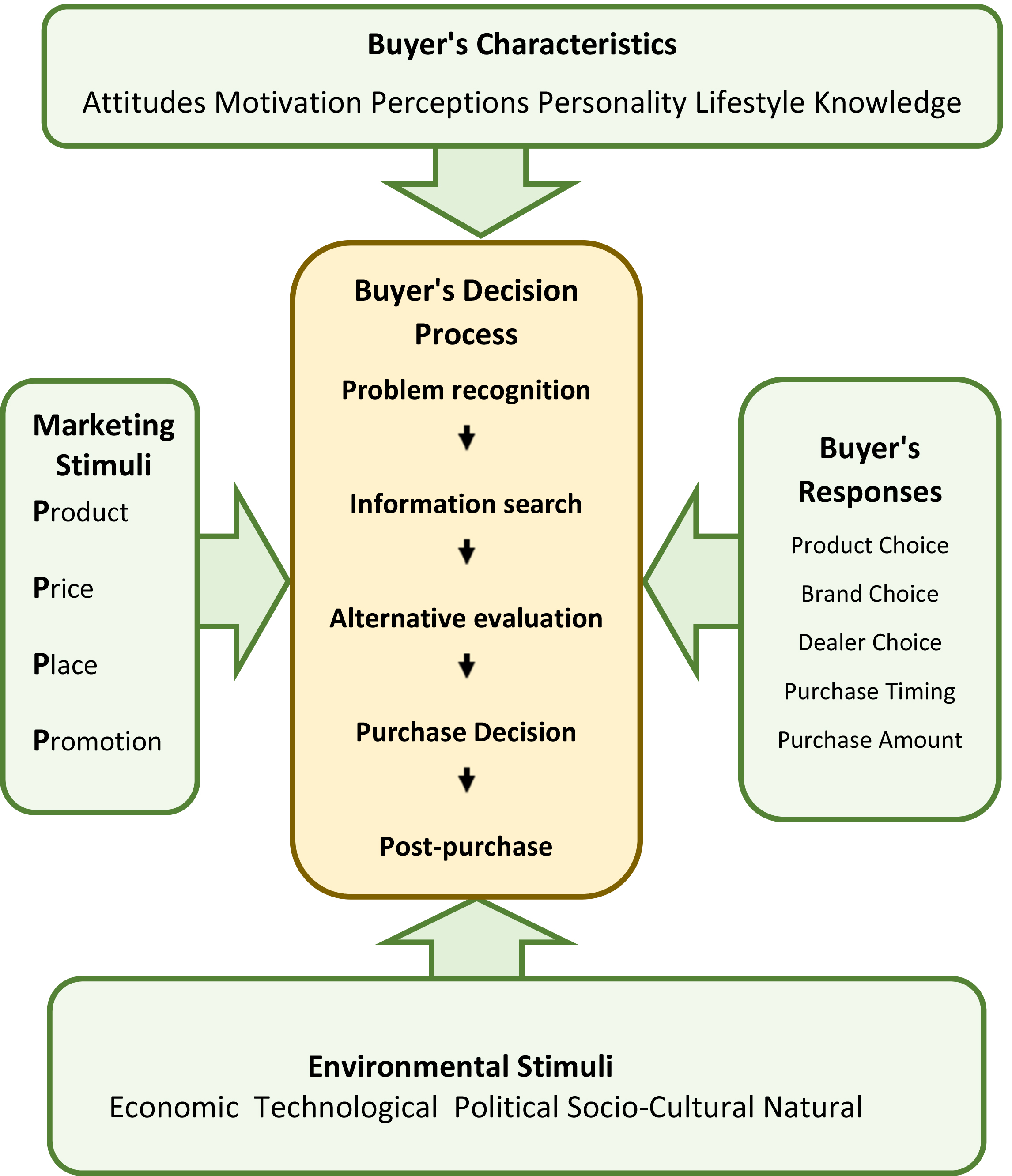 A schematic drawing of the purchasing decision model